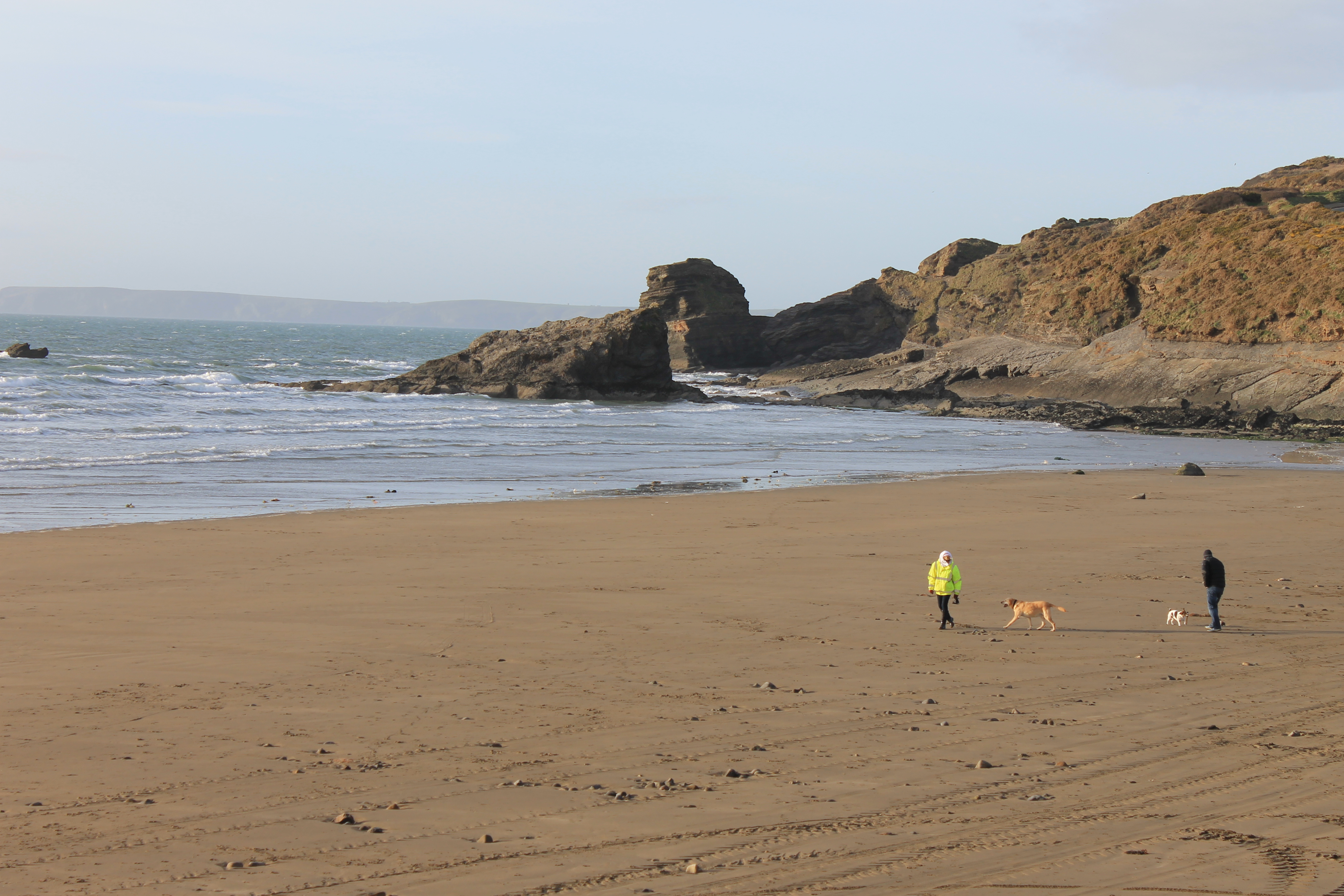 Broad HavenCymraeg: Traeth Llydan